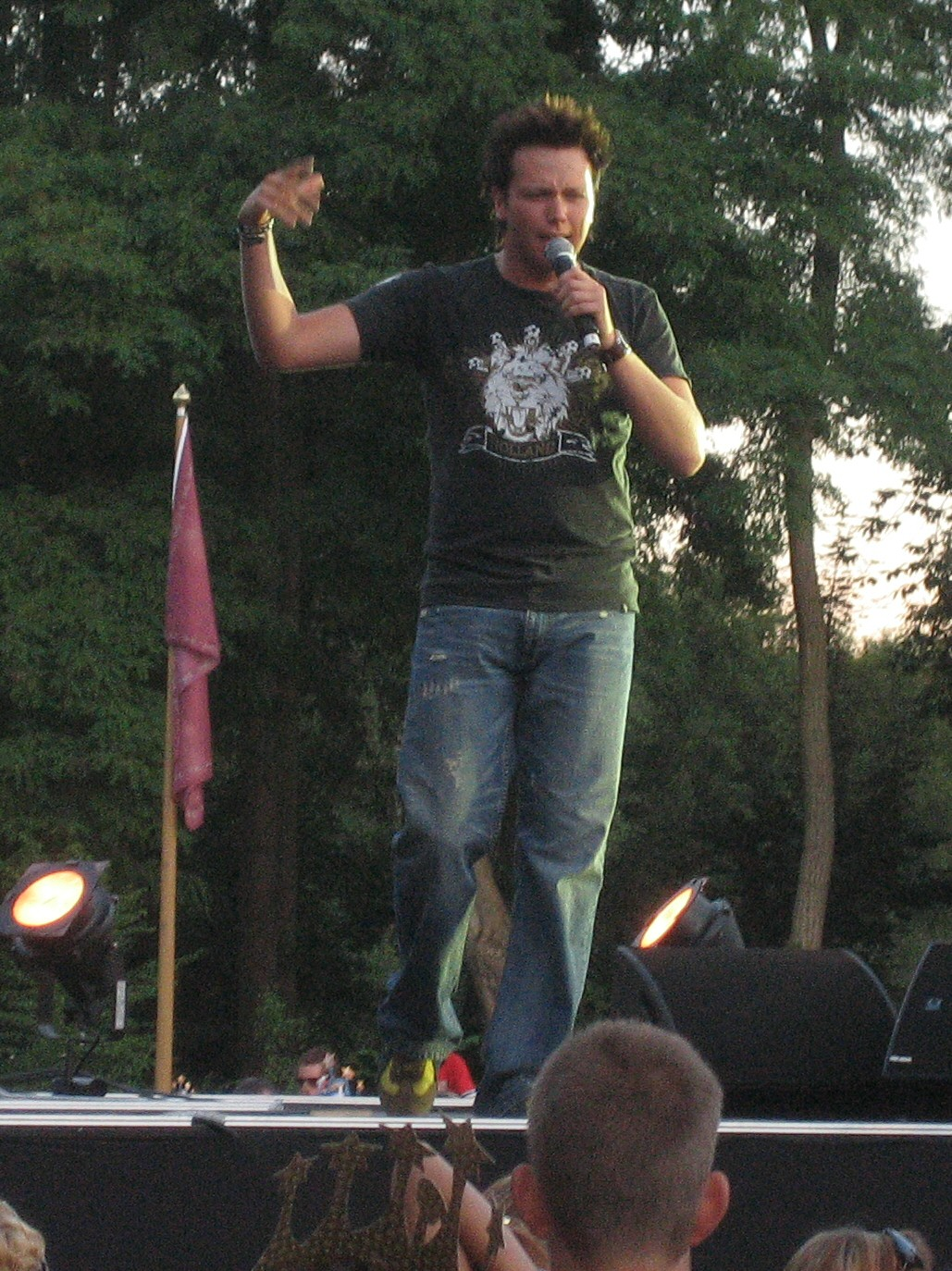 Jamai Loman Dutch singer Picture taken 15 July 2006 in De Efteling by Hullie